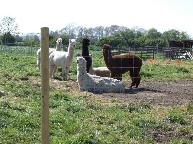 Alpaca at Great Carlton